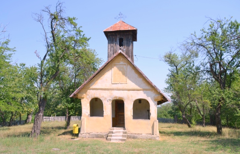 Wooden church in Gârbovățu de Sus, Mehedinți county, Romania